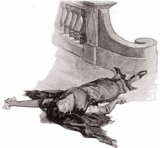 Arthur Conan Doyle, The Problem of Thor Bridge (1922), Illustration by Alfred Gilbert, in The Strand Magazine